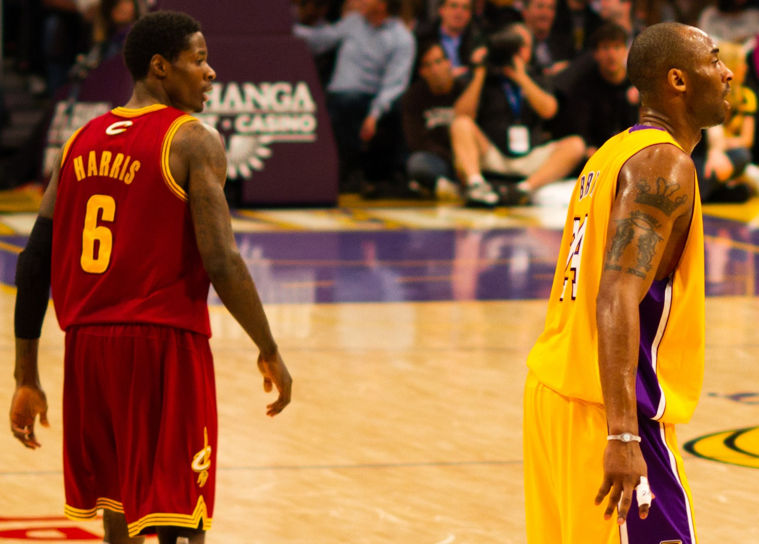 Manny Harris and Kobe Bryant